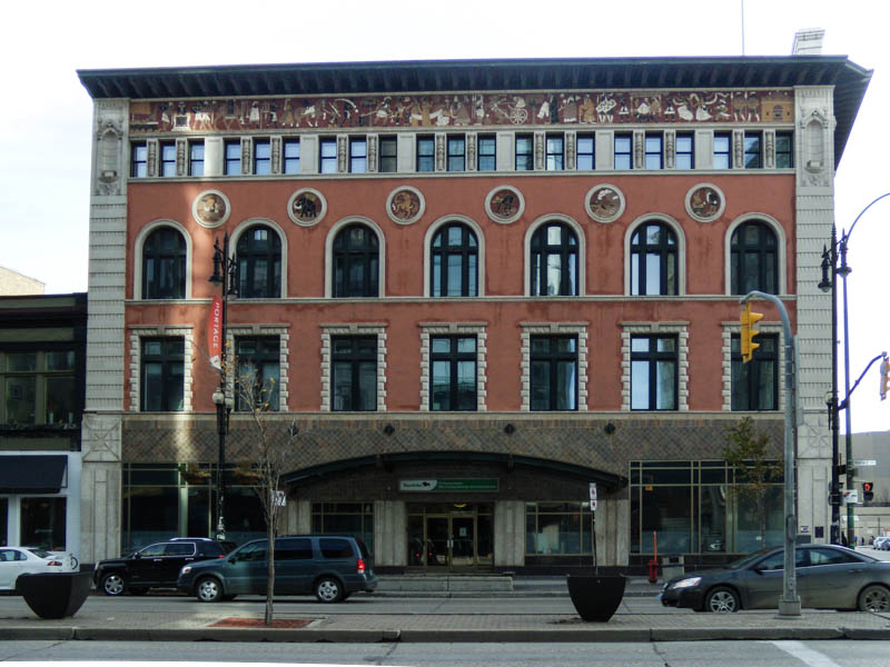 Birks Building, 276 Portage Avenue, Winnipeg, Manitoba